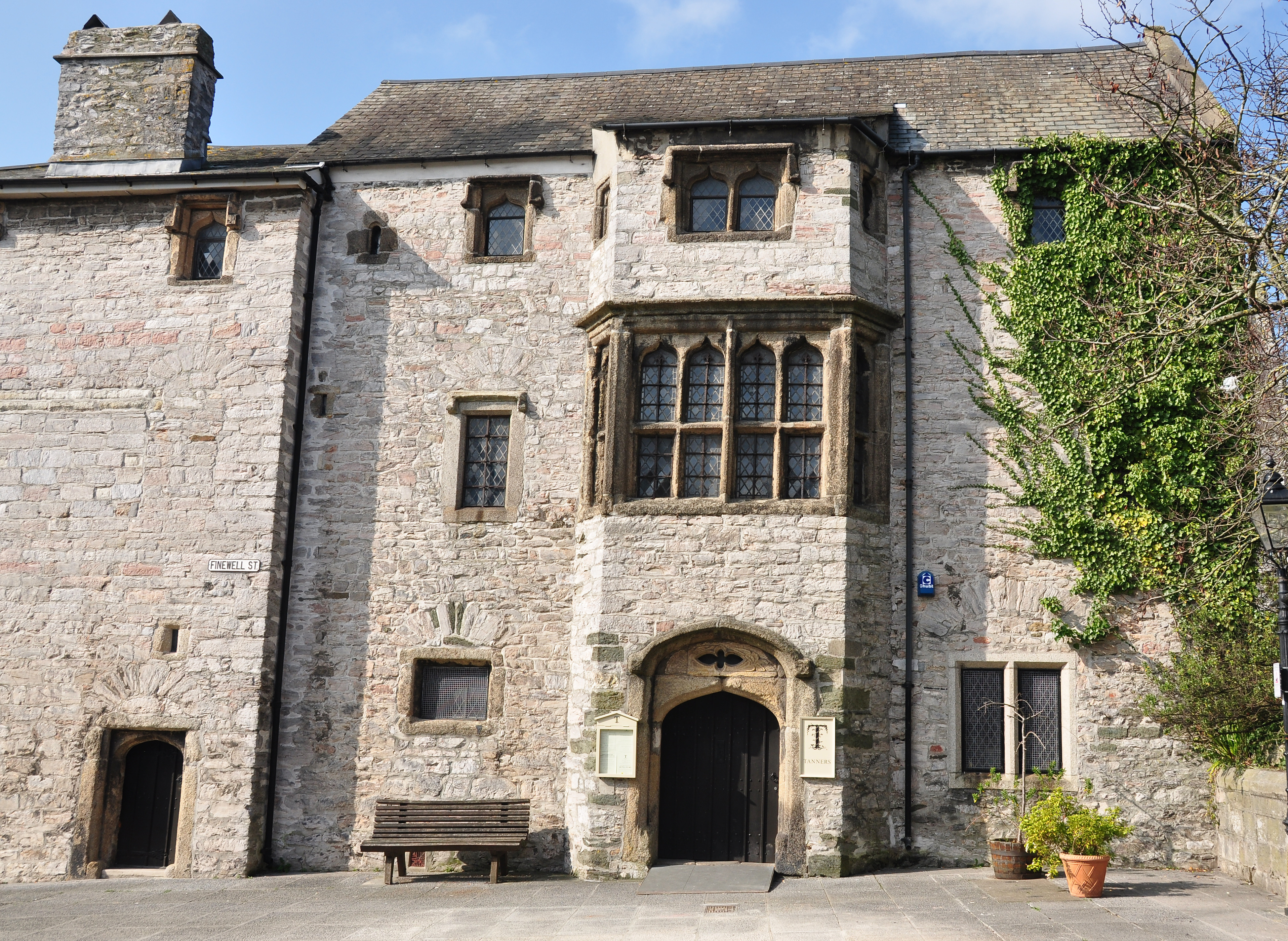 Prysten House in Plymouth city centre.